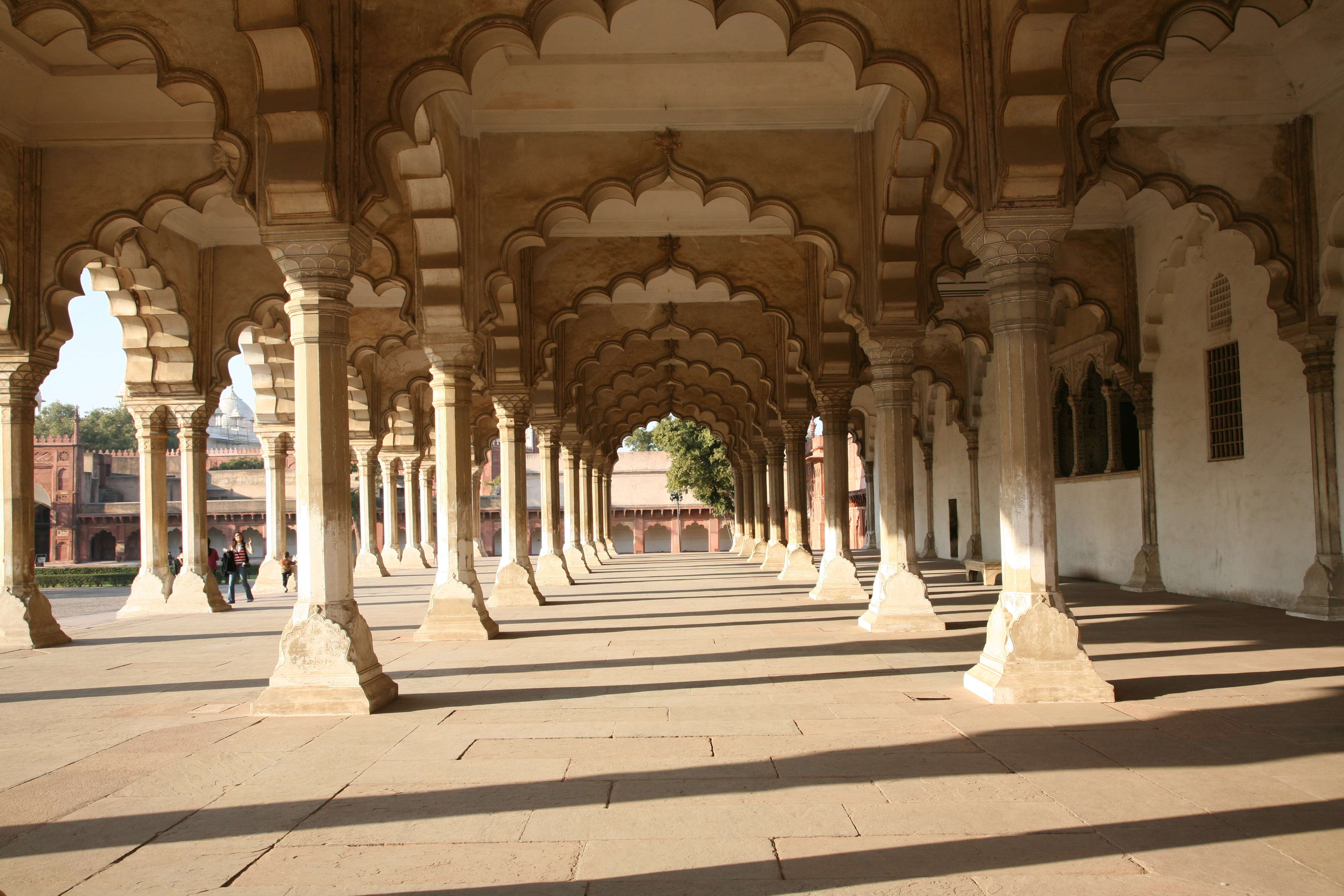 Red Fort Agra, the Diwan-i-Am